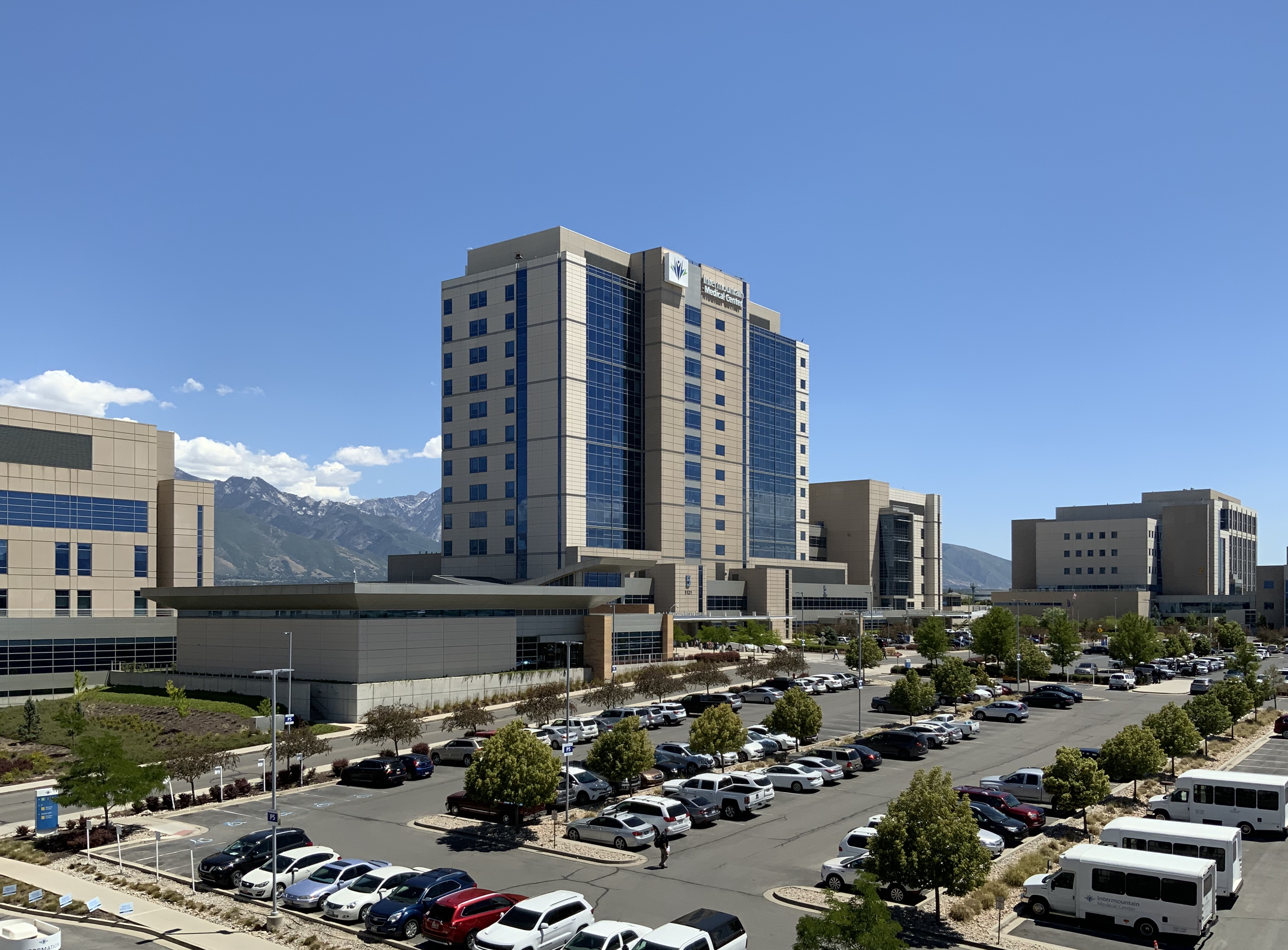 Intermountain Medical Center Patient Tower, and surrounding buildings in the campus.